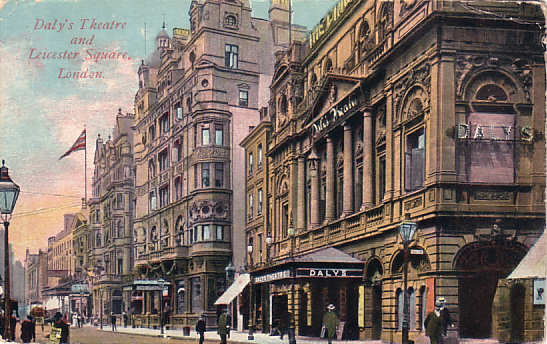 Drawing of Daly's Theatre, c. 1905. The caption reads: "Daly's Theatre and Leicester Square, London"